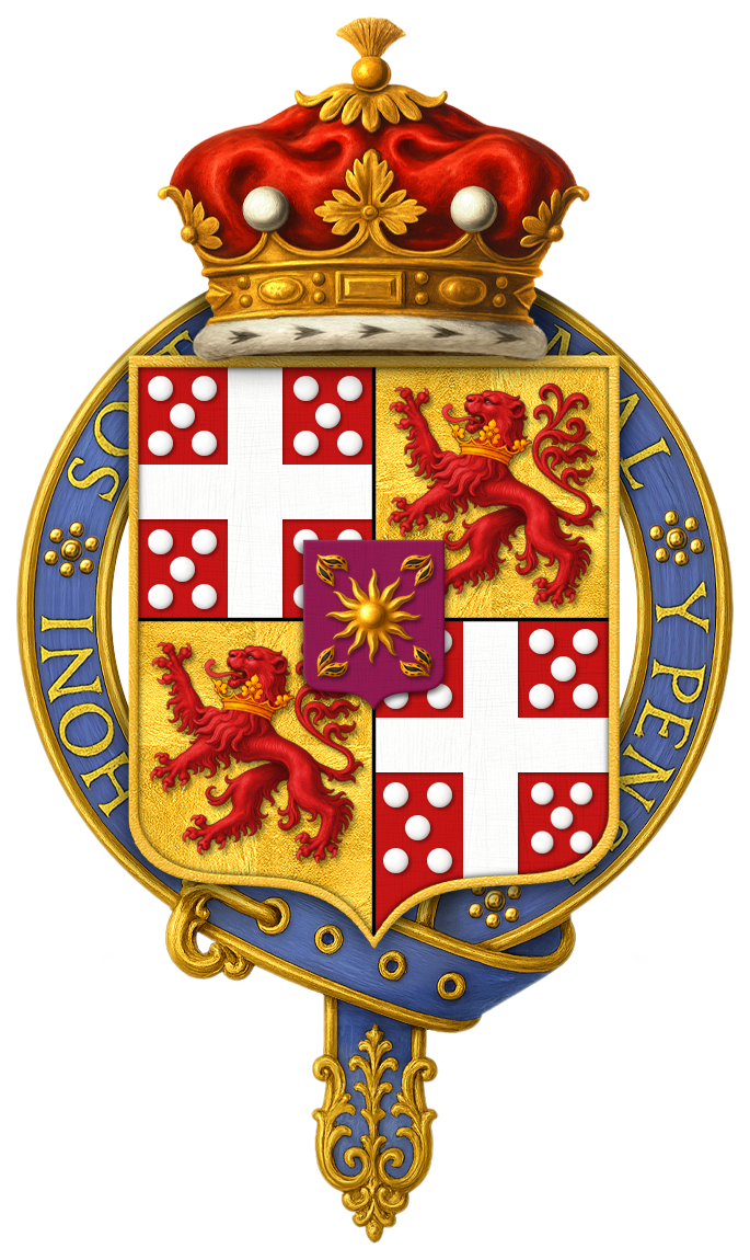 Shield of arms of Richard Wellesley, 1st Marquess Wellesley, KG, PC